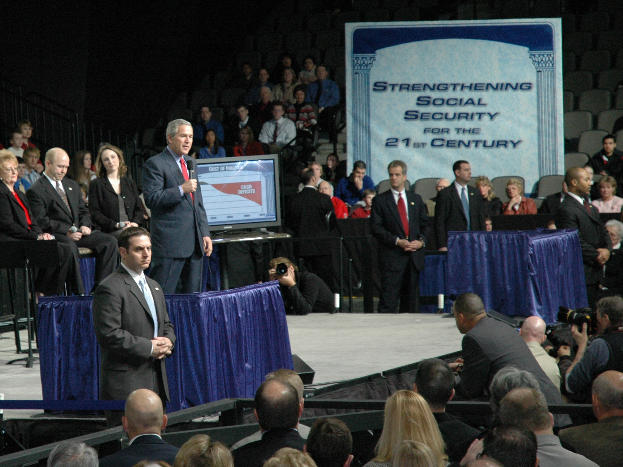 George W. Bush in the Qwest Center in Omaha, Nebraska